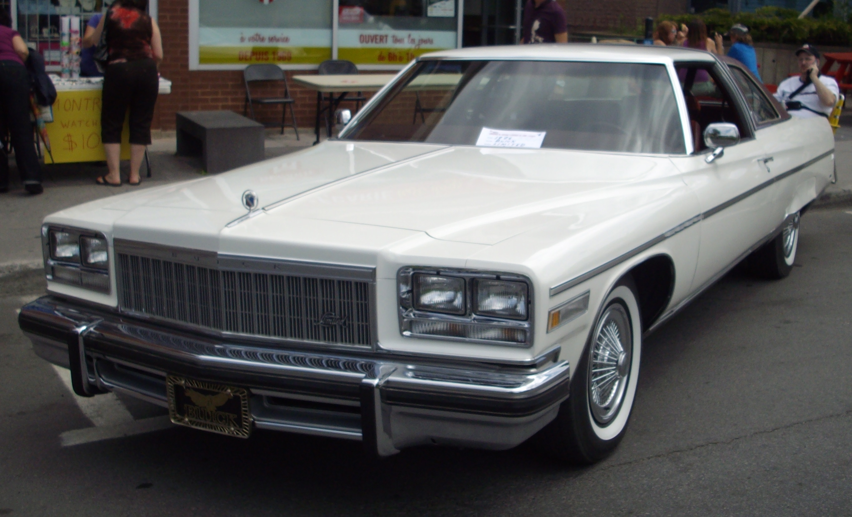 1976 Buick Electra Limited photographed in Montréal, Quebec, Canada at Destination Décarie 2012.